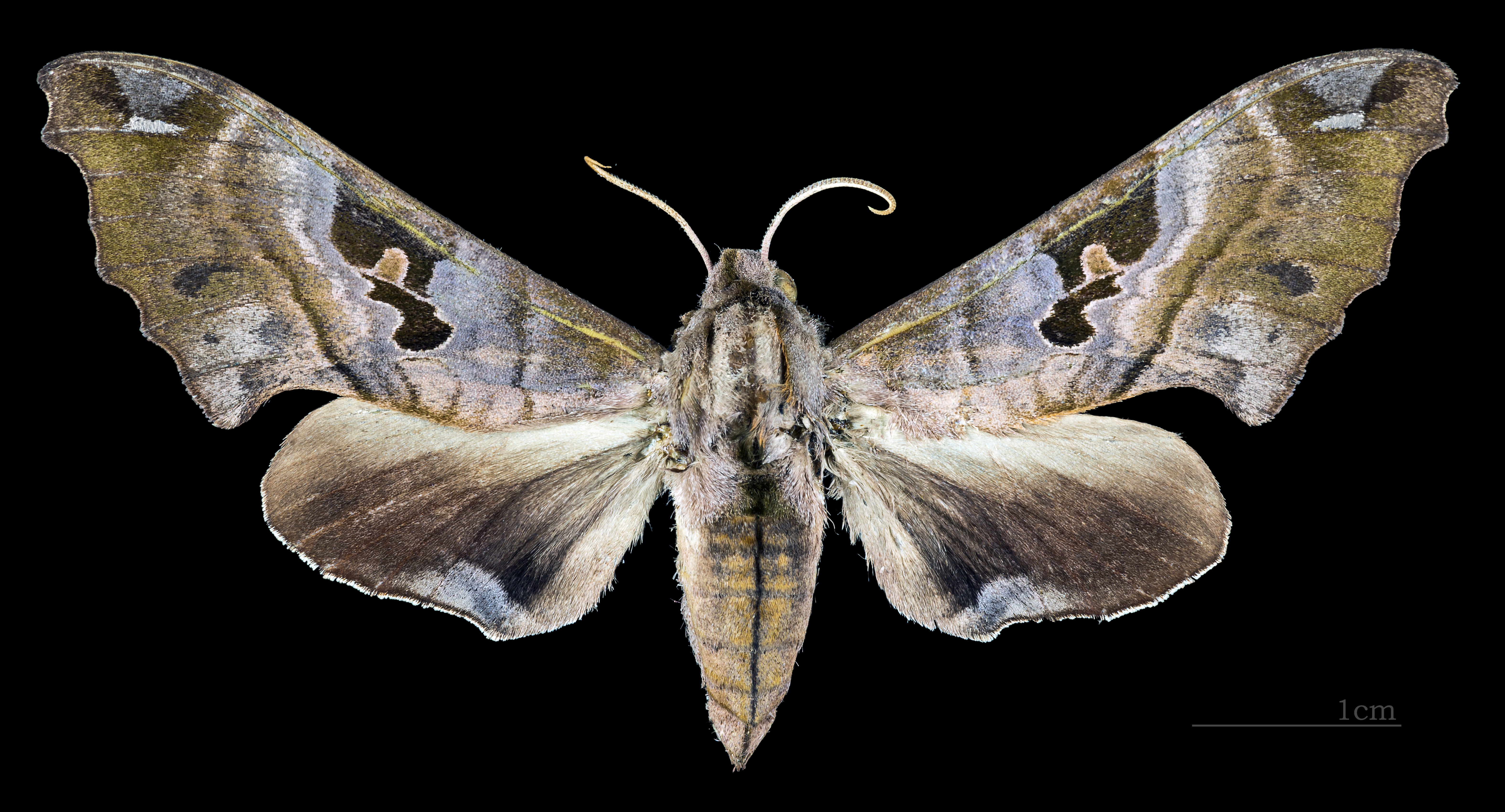 Morwennius decoratus - Dorsal side Collection of the Mathematician Laurent Schwartz